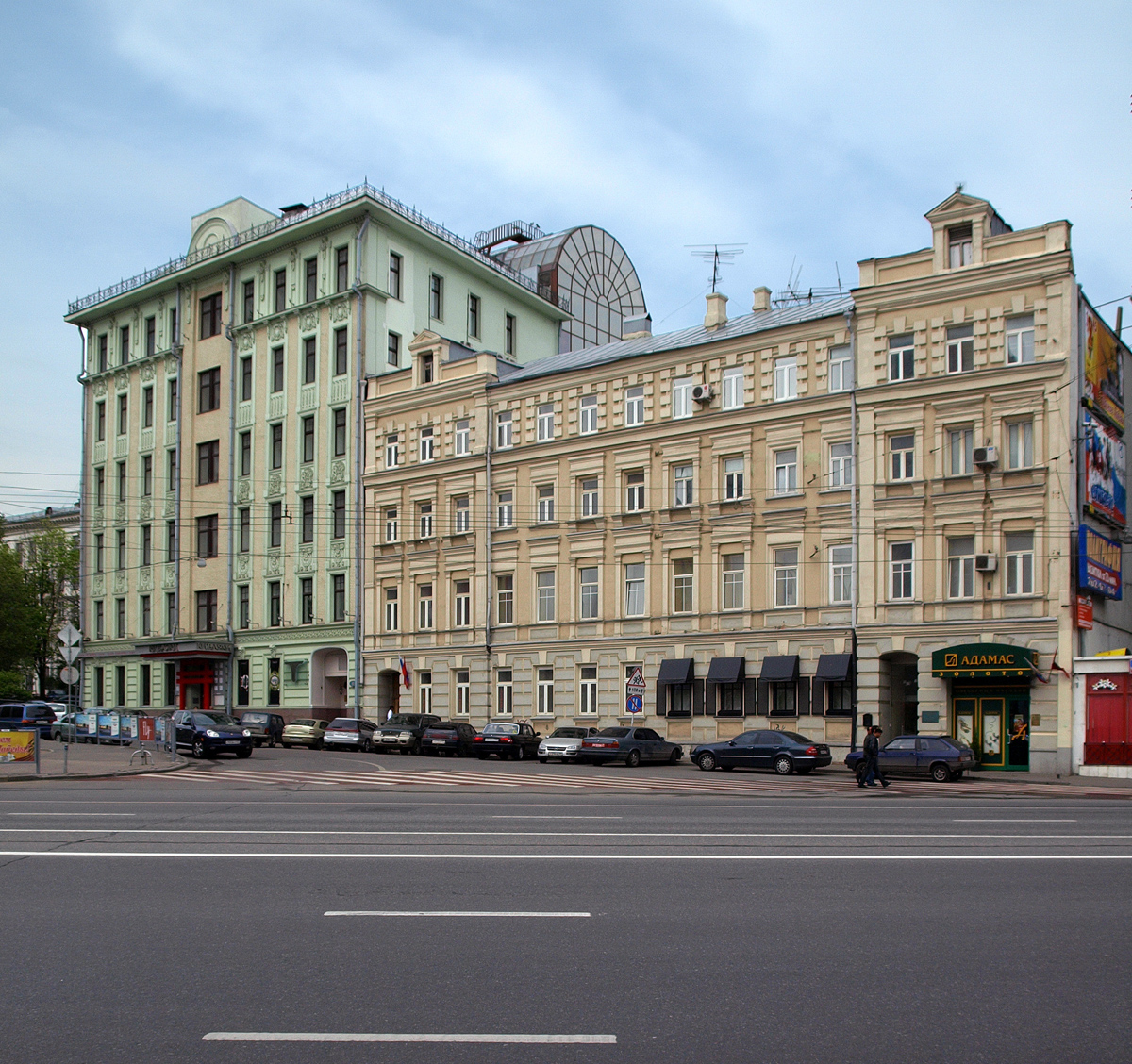 Povarskaya Street, Moscow.